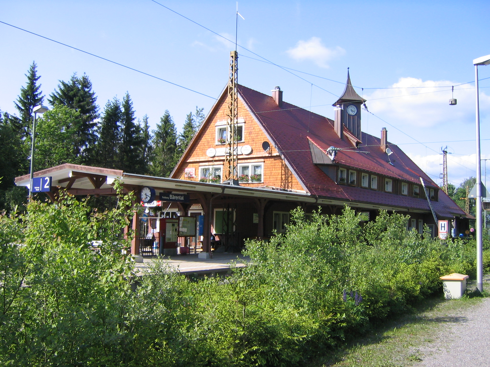 Bärental railway station, Germany